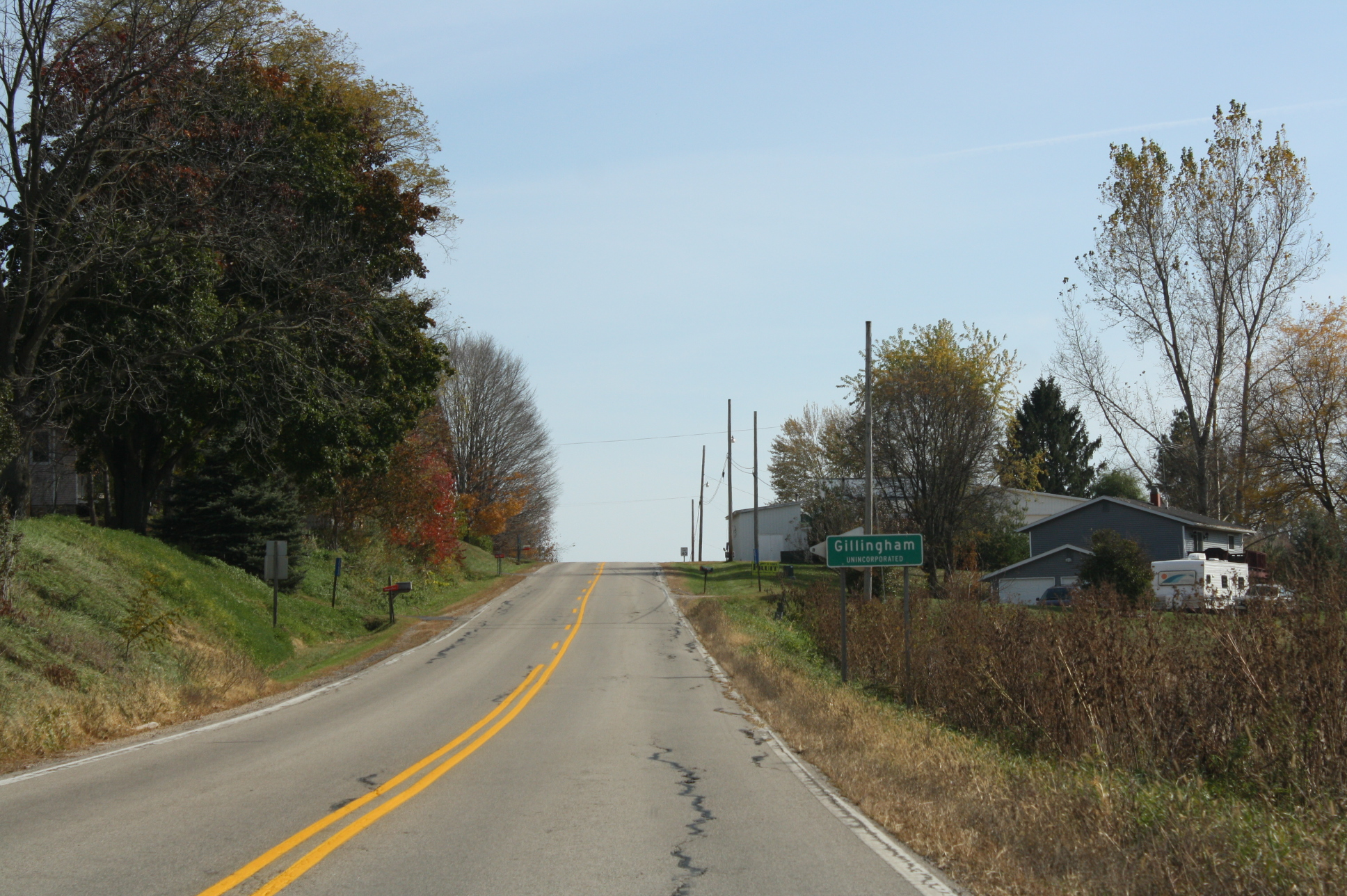 The sign in Gillingham, Wisconsin along Wisconsin Highway 56.